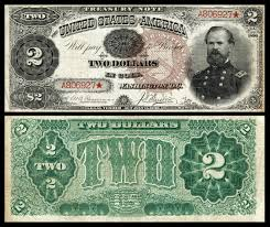 The 1890 two-dollar bill which was categorized as a "Coin Note," used to purchase silver bullion from the mining industry.